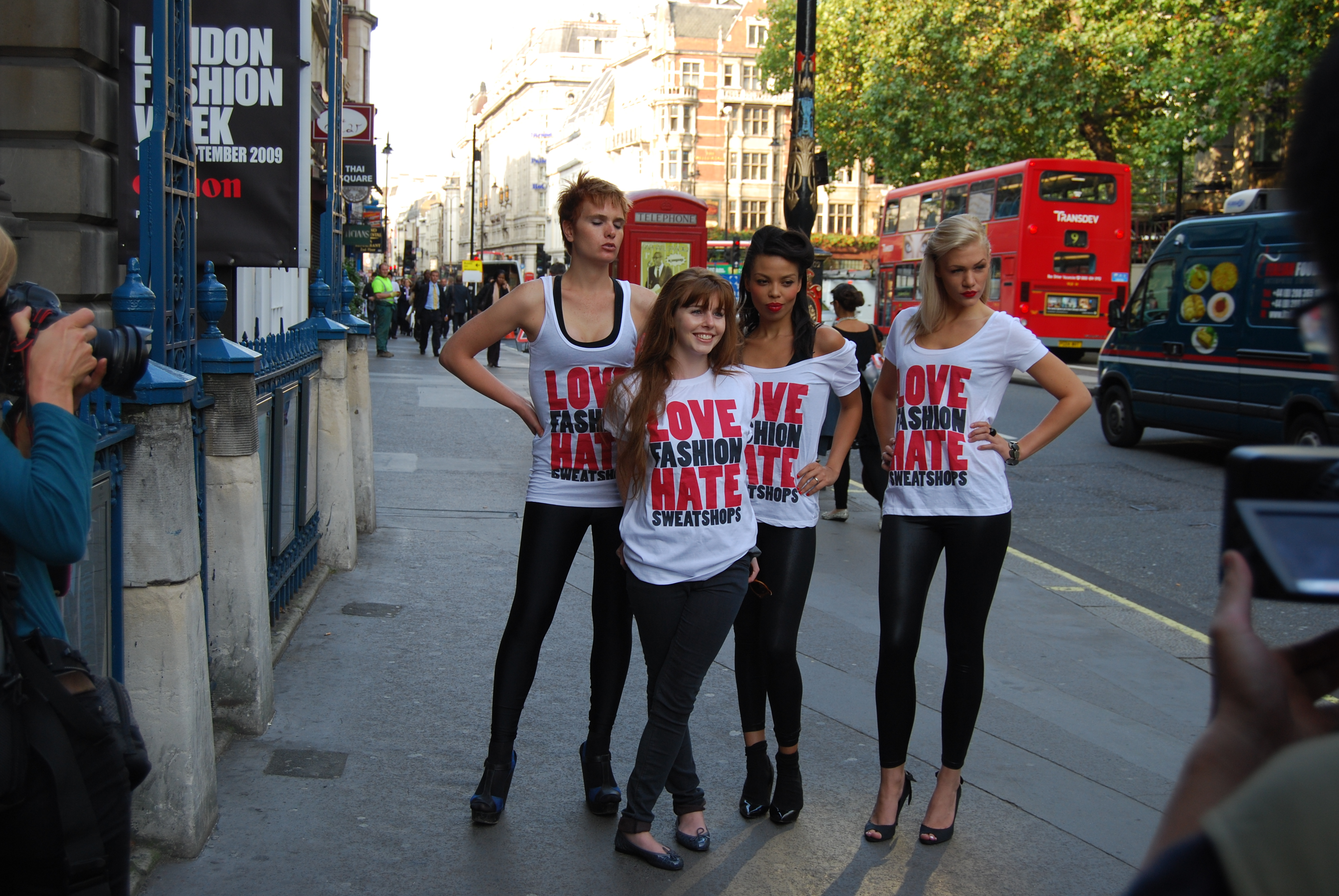 Stacey Dooley, second from left, campaigner against sweatshops since her appearance in the BBC television series Blood, Sweat and T-Shirts.